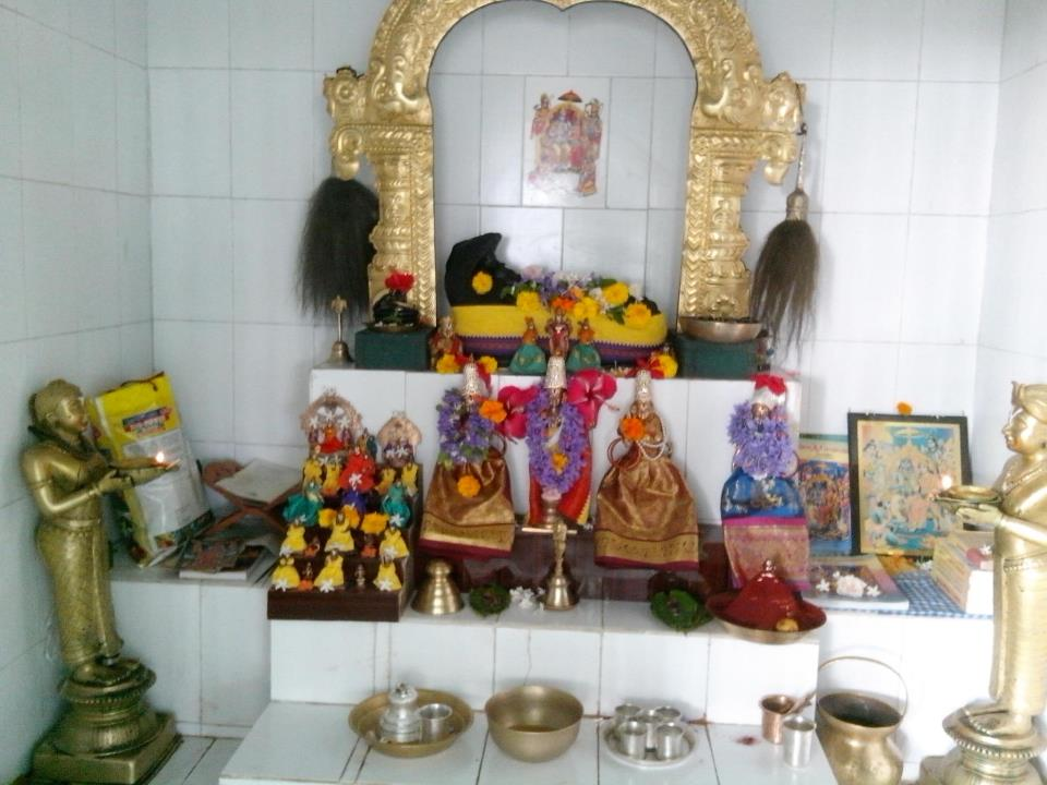 Sri Bhu Neelaya toda Sri Ranaganatha swamy